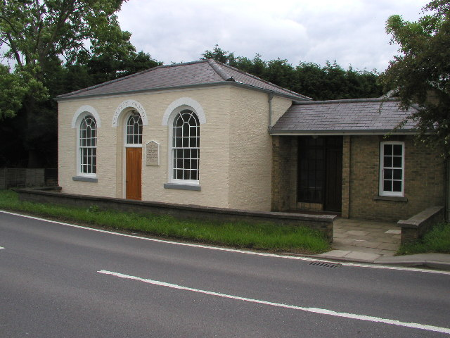 The Methodist Chapel in Wyton, East Riding of Yorkshire, England.Situated at the side of a busy road at MR: TA17573327.